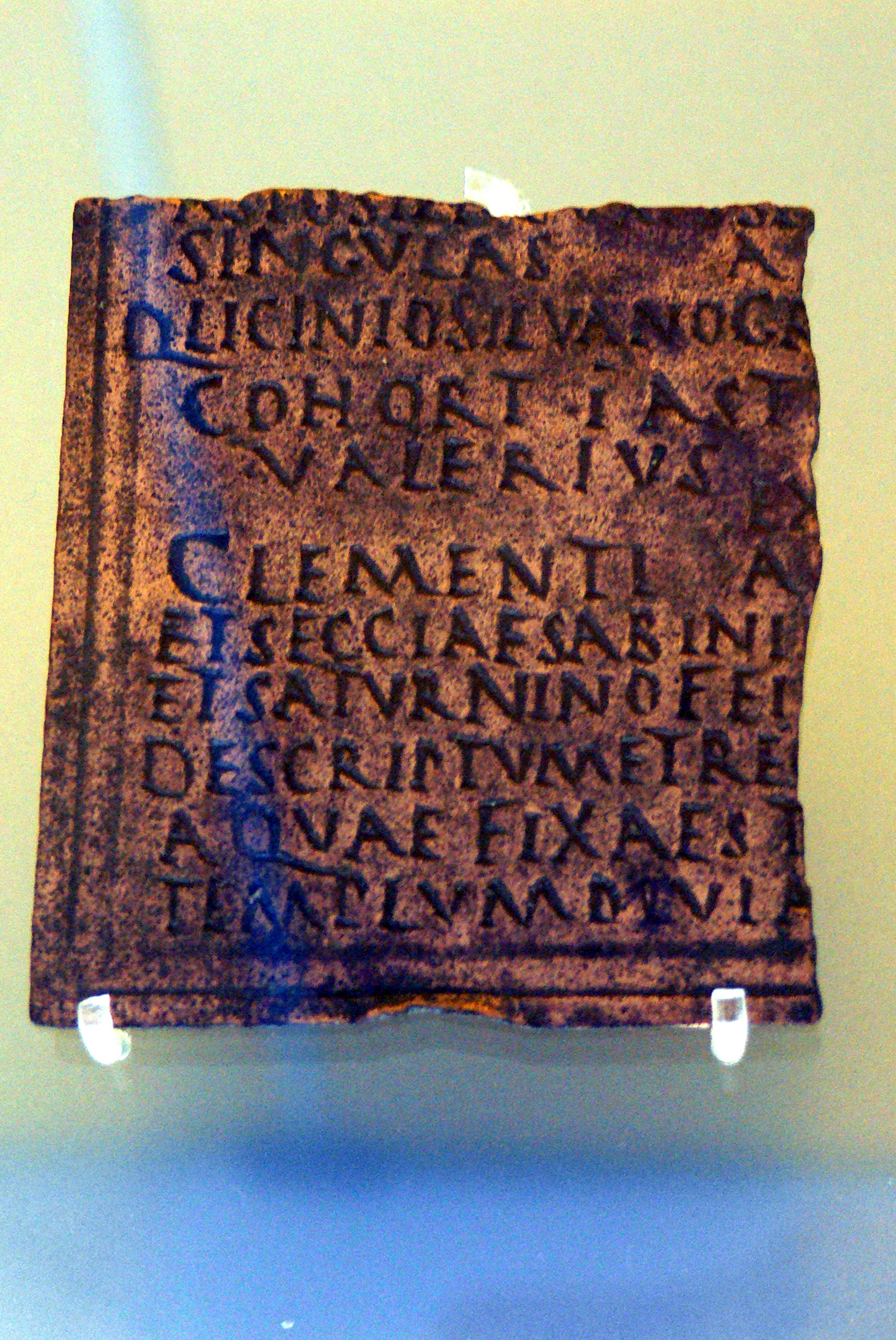 Wels ( Upper Austria ). City Museum Minoritenkloster - Roman department: Fragment of an ancient Roman military demission document.